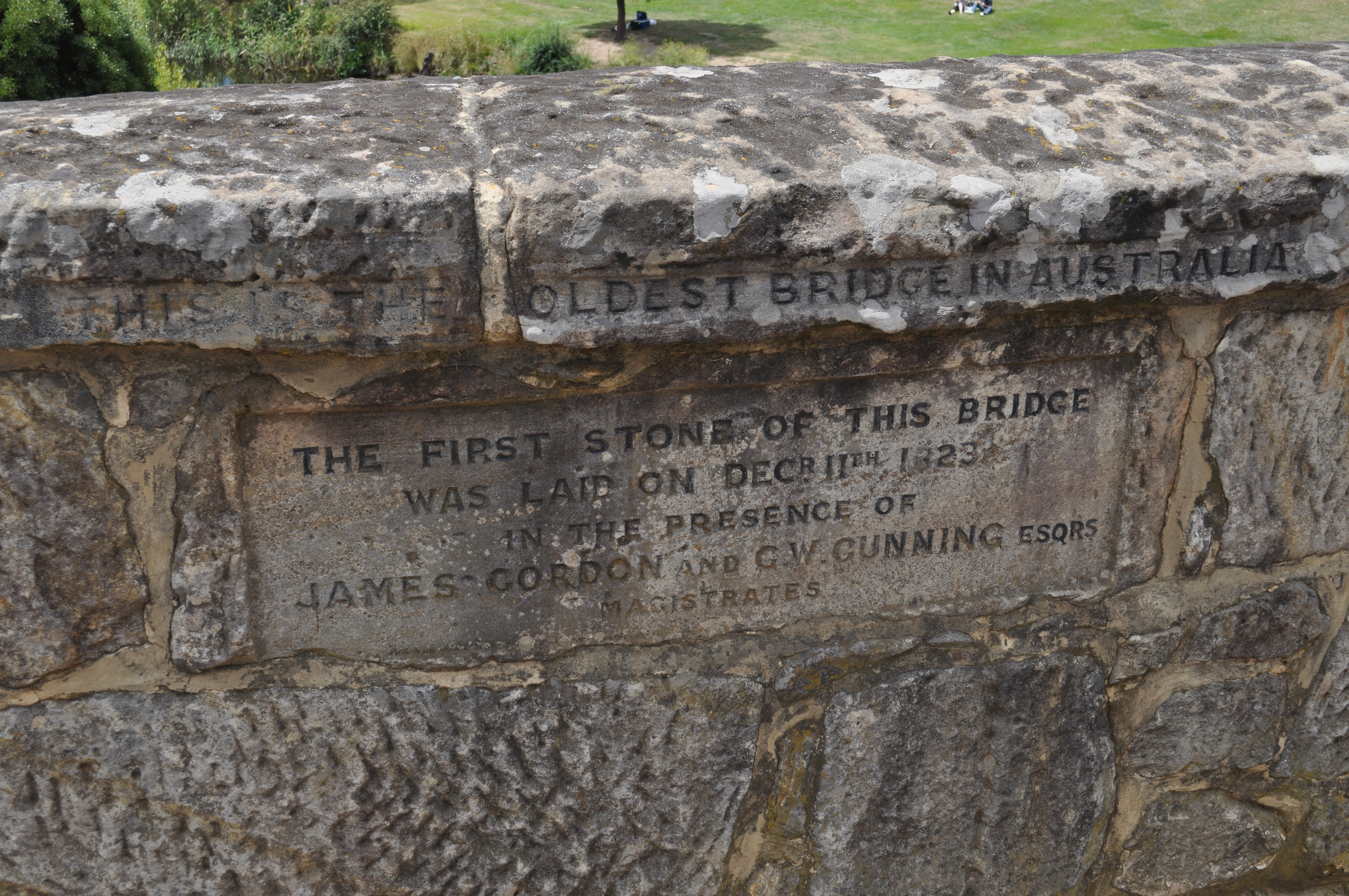 Richmond Bridge is the oldest bridge in Australia still in use. This stone shows the date that construction started.